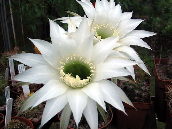 Echinopsis adolfofriedrichii